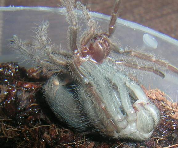 spider moulting process (8 photo)